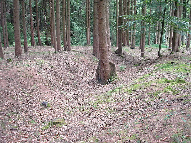 Early Middle Ages hill fort "Schwedenschanze" near Nisselsbach (Aichach, Landkreis Aichach-Friedberg, Bavaria, Germany). The western earthworks of the bailey.